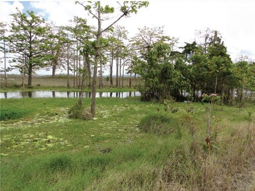 The Lake Ira Lalaro floodplain and surrounding area. Whereas the foreground of this image shows the marshy edges of the Irasequiro River, the background shows the treeless expanse of the lake’s floodplain. Because this area is a highly seasonal water source and prone to flooding, it has experienced very little development.